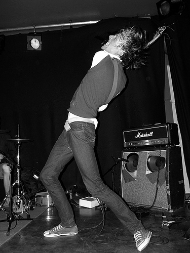 The Swedish screamo band Anemone